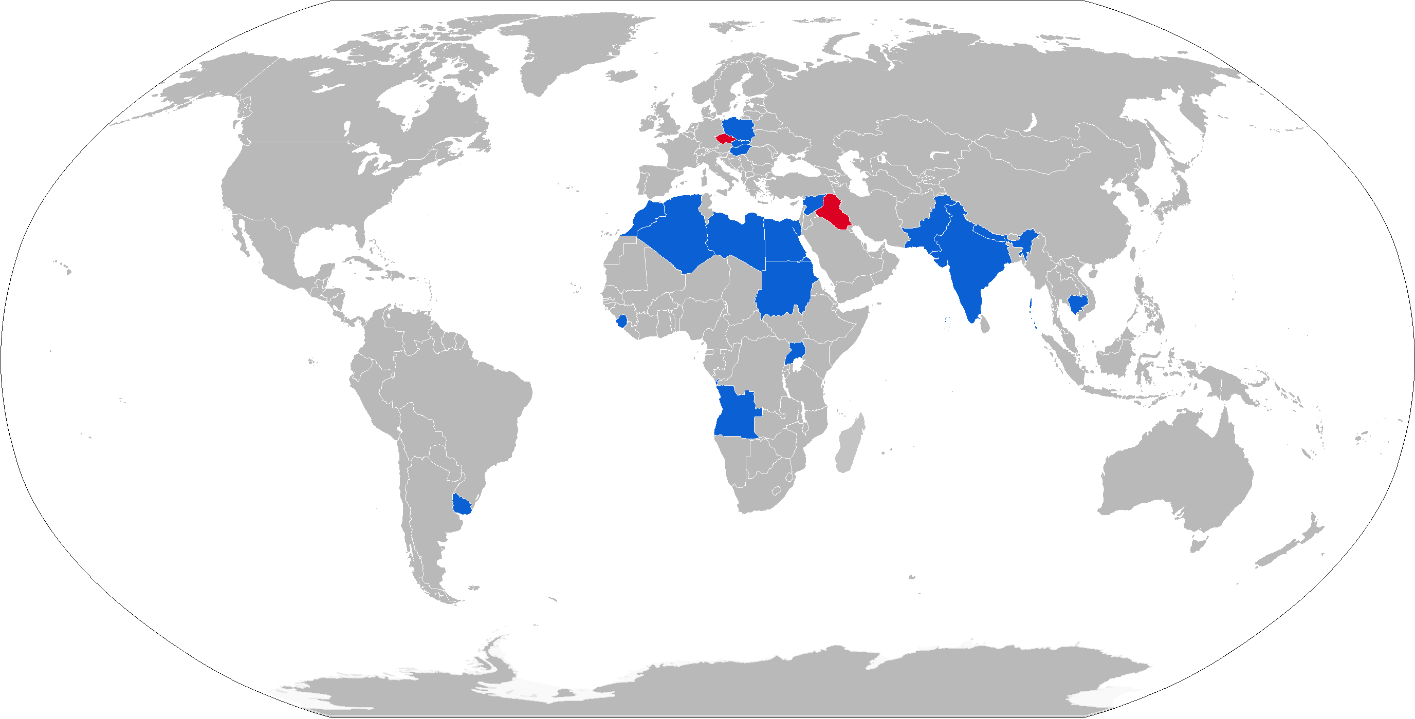 world operators of the OT-64 SKOT APC